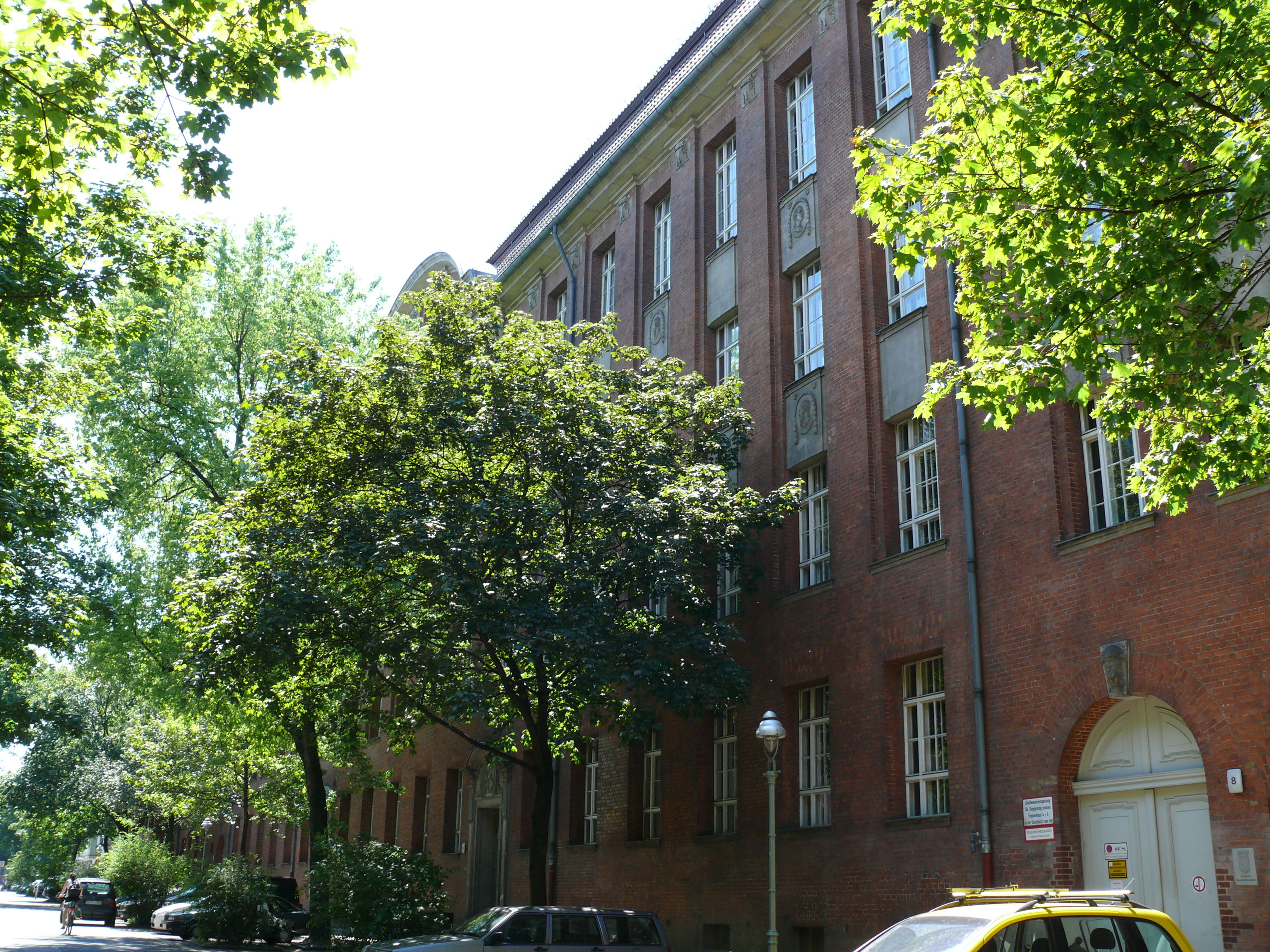 Berlin-Moabit Bochumer Straße Techniker-Schule